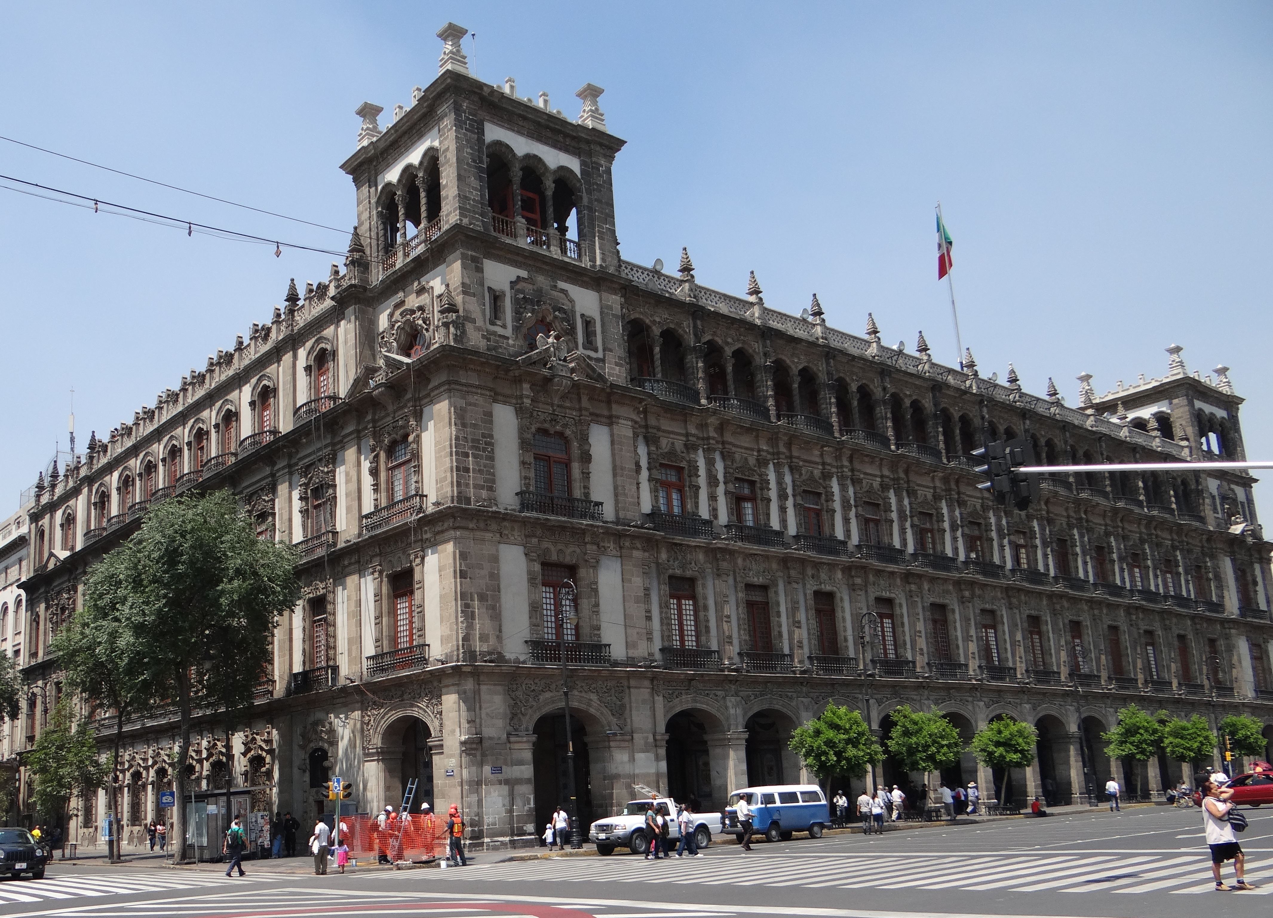 TThe "old" Federal District Building on the south side of the Zócalo in Mexico City. It is twin to the "new" building located next door. Located on the site that has always been Mexico City's town hall.